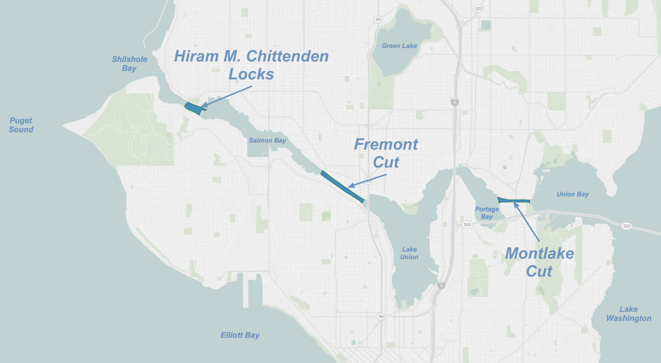 Map of Lake Washington Ship Canal with Hiram M. Chittenden Locks, Fremont Cut and Montlake Cut shaded in blue. Created with Tableau Software.